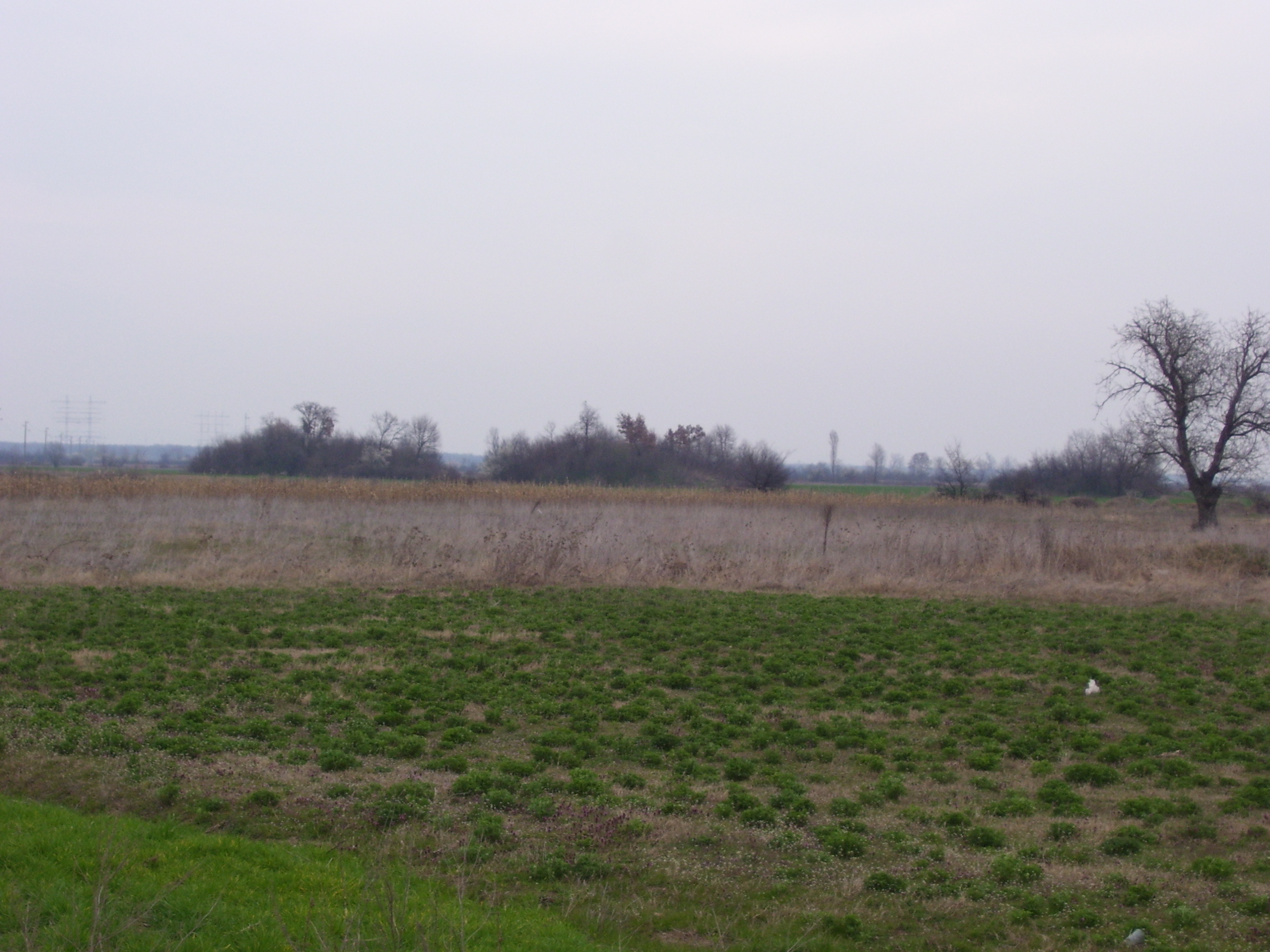 Thracian mounds near the village of Razhevo, Plovdiv Province, Bulgaria